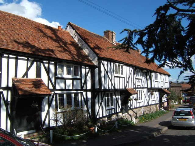 Church Cottages, Southfleet. This row of cottages built around 1480 are near 145162 and are appropriately in Church St Southfleet.